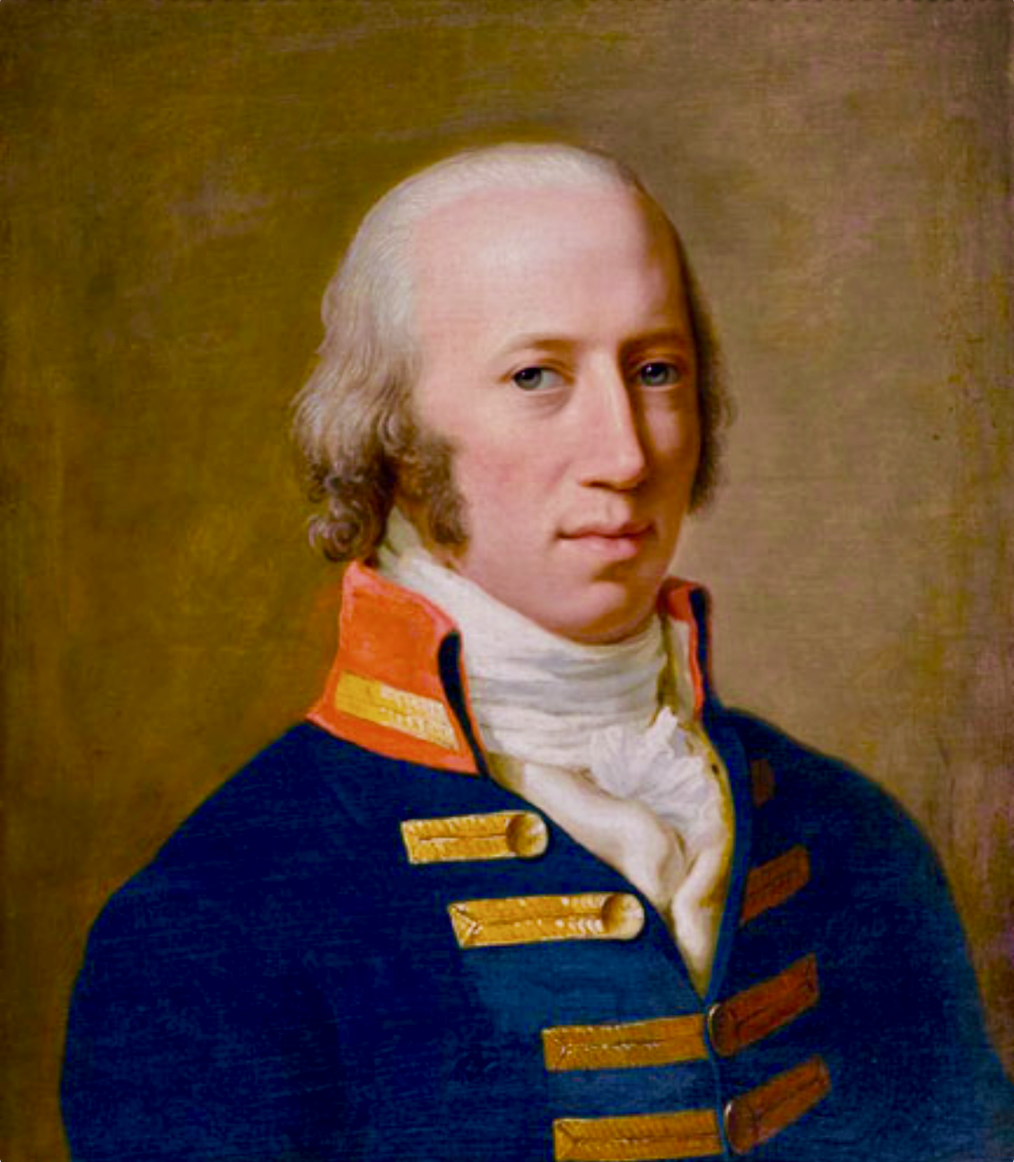 Painting of 1801 by Tischbein: Earl Ernst Friedrich Herbert zu Münster (1766–1839)